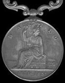 The Baltic Medal 1856 reverse